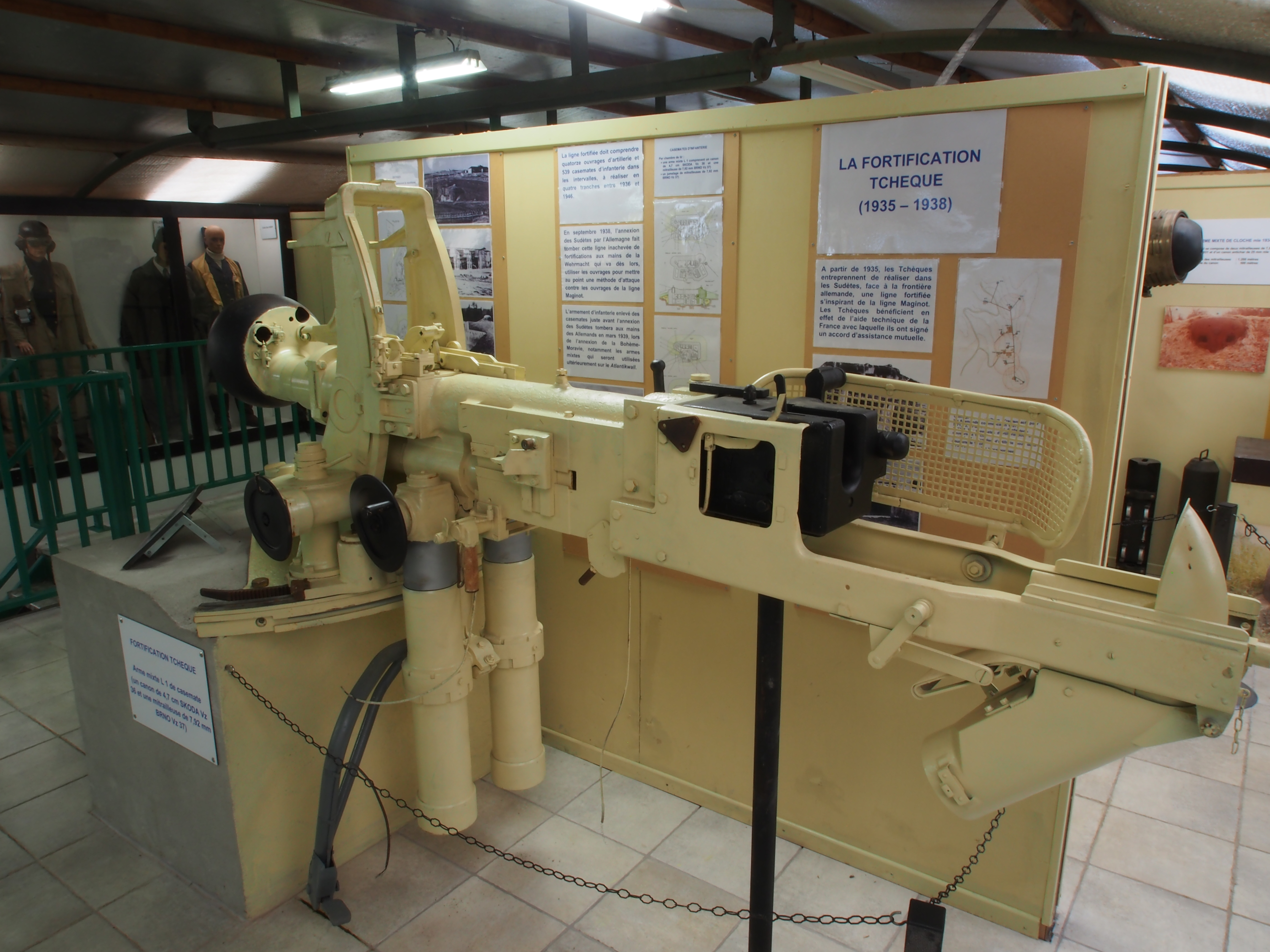 Fort de Fermont and its museum -Czech fortification SKODA Vz 36 4.7cm cannon and 7.92mm BRNO Vz 37.